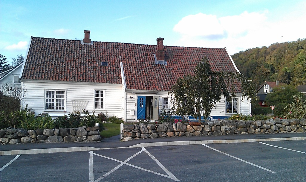 Old norwegian house at Hana in Sandnes, Rogaland, South-Western Norway